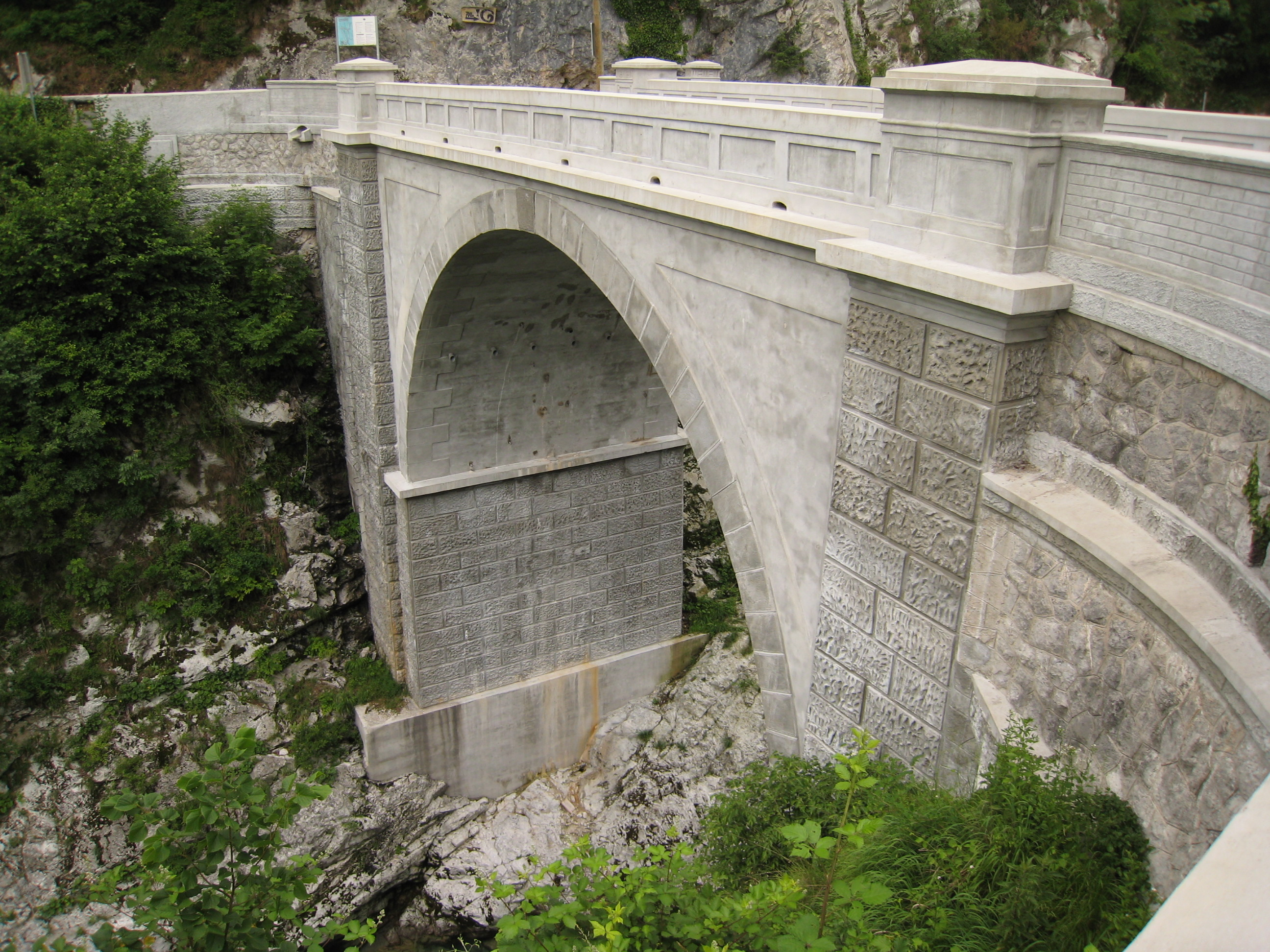 The Napoleon Bridge over the Soča River, Kobarid, Slovenia. A replica of the bridge built by the French in the early 19th century and destroyed in May 1915.